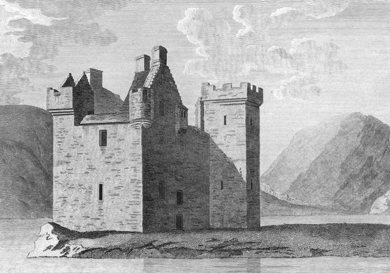 Engraving of Lochranza Castle